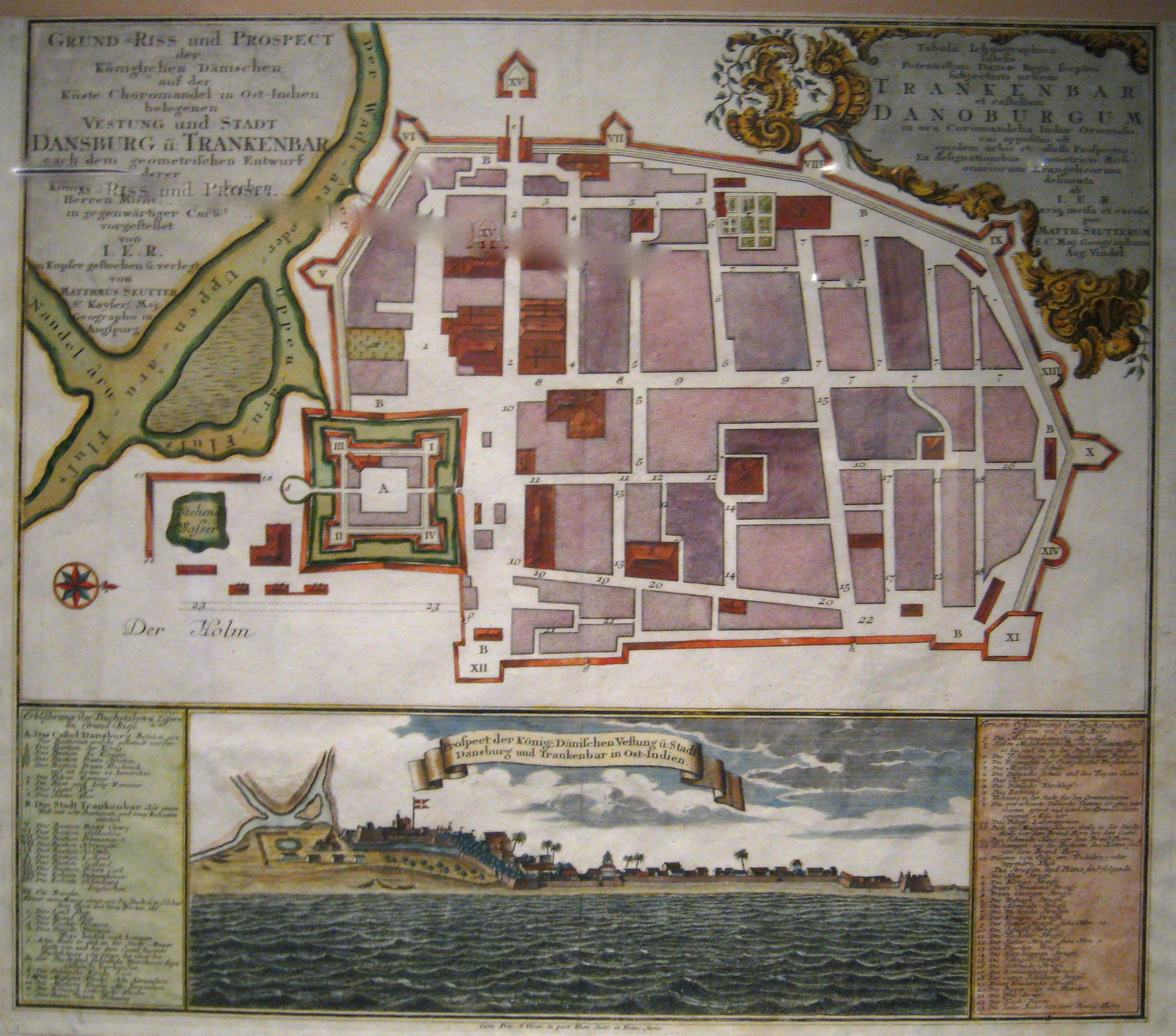 Historic map of danish colony Tranquebar and Fort Dansborg, 1700s, along the coastline of Tamil Nadu, India. In the lower-left quarter of the map, near the fort walls is the 13th- or 14th-century Masilamani Shiva temple with a square plan. For more details, see pages 226–228, in Early Interactions Between South and Southeast Asia (Pierre-Yves Manguin et al, editors)